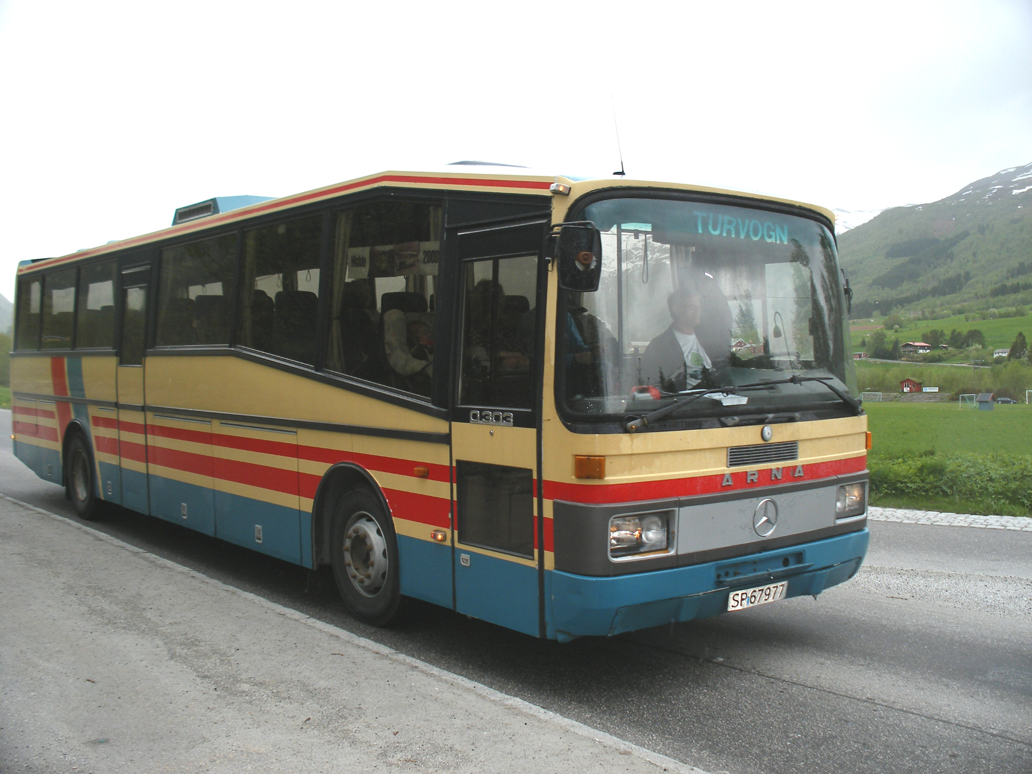 «Old» bus from Norway. Mercedes-Benz 0303 with body Arna.